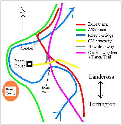 Map of environs of Beam House, Great Torrington, Devon